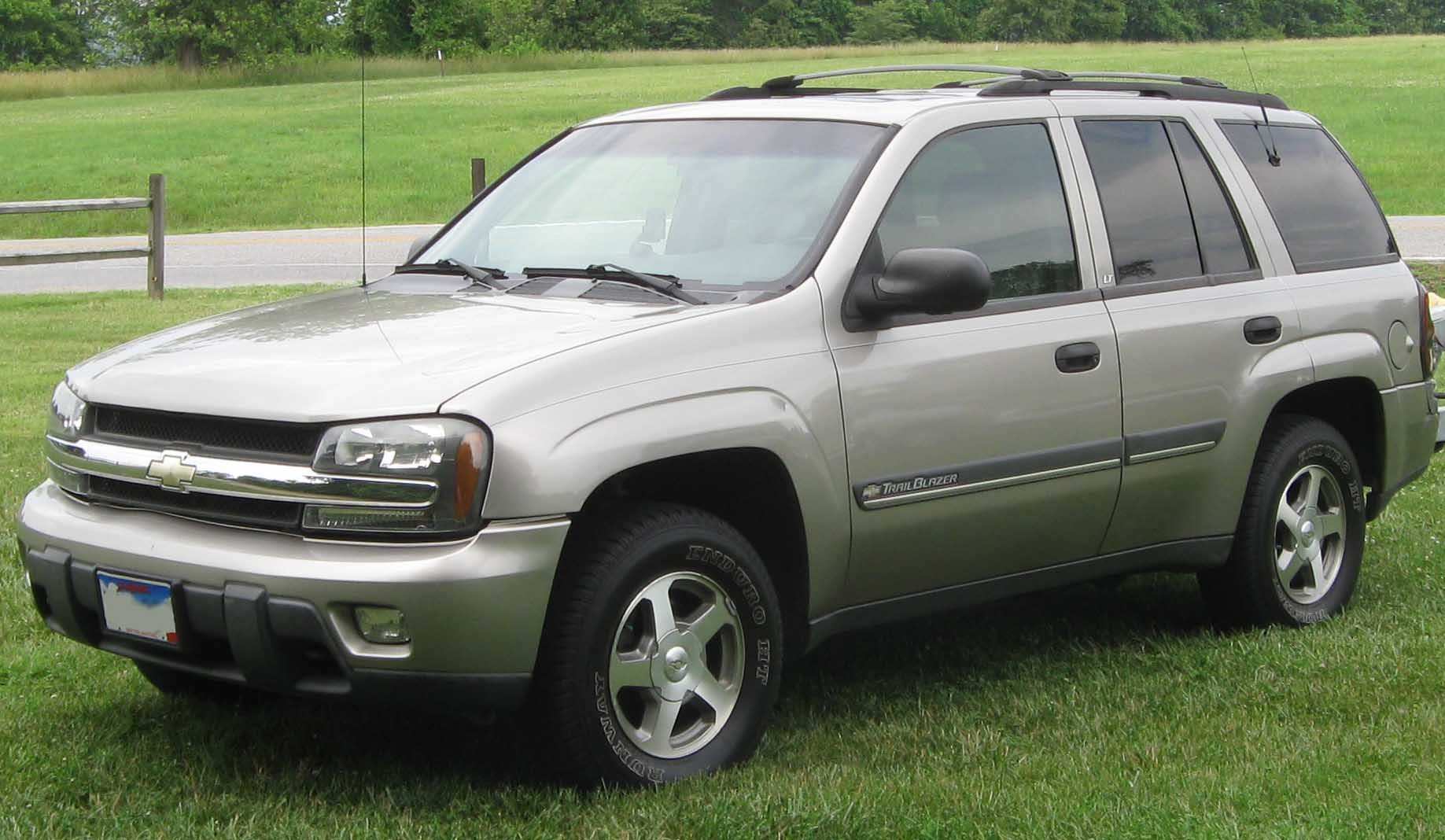 2002-2005 Chevrolet TrailBlazer photographed in Marshall Hall, Maryland, USA.